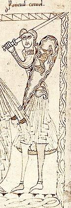 Privilegium Imperatoris Privilegium Imperatoris of Alfonso VII of Leon and Castile, cropped to show count Ponce de Cabrera